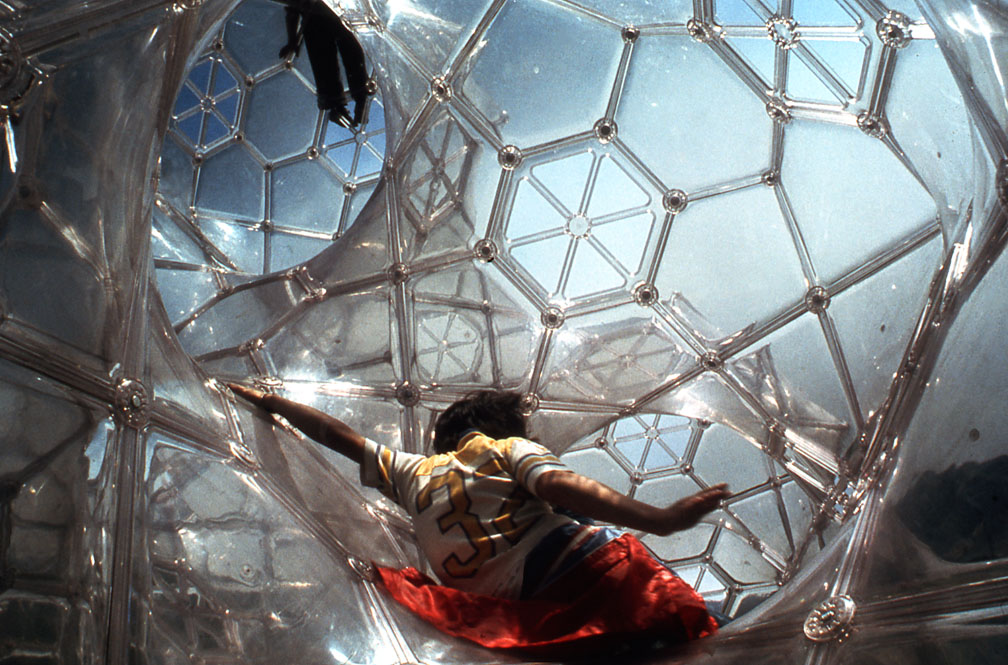 Interior photograph of Curved Space Diamond Structure